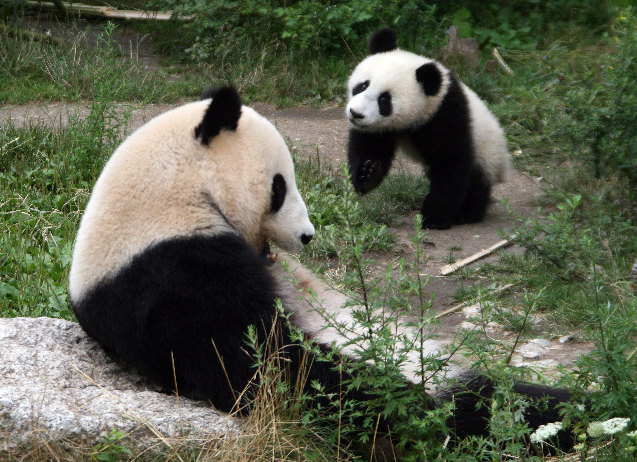 Giant Panda (female adult and young bear of 10 months) at the Tiergarten Schönbrunn in Vienna